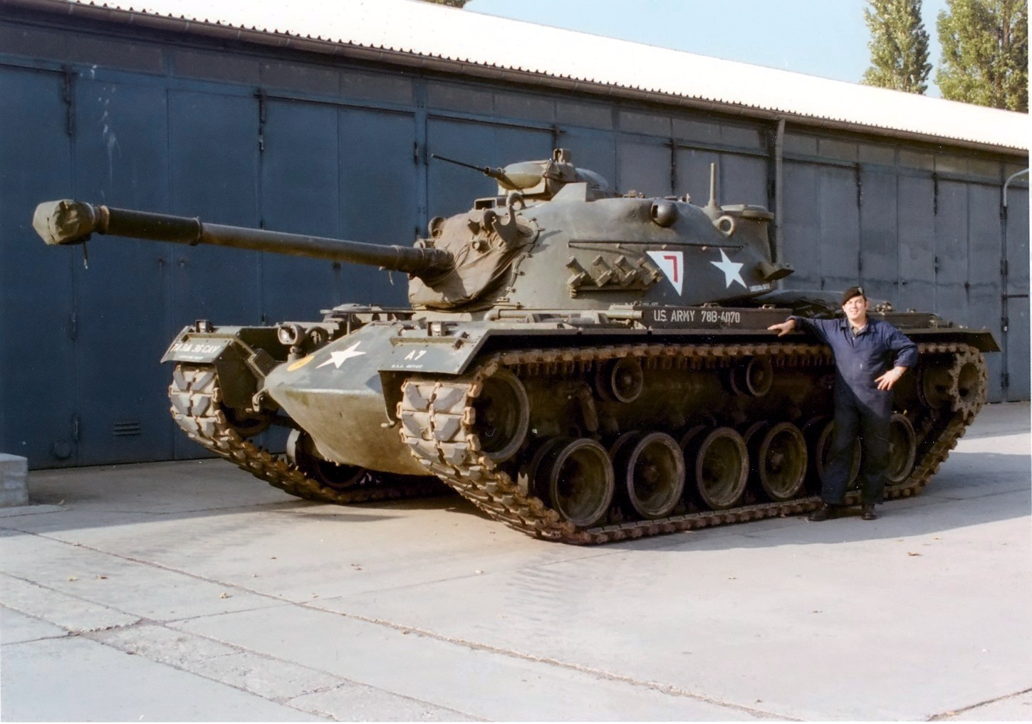 German used M48A2C Tank with repainted US insignias before the last run to Museum